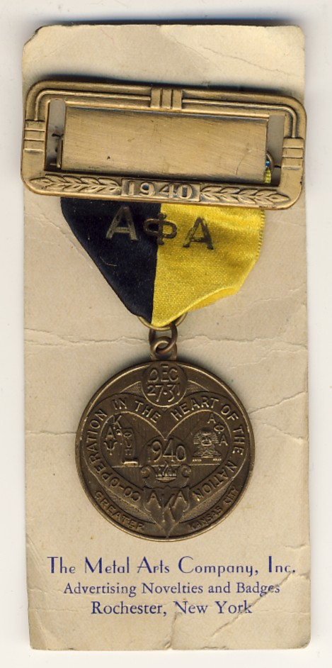 Delegate’s badge or pin for 23rd AKA Boule at Kansas City Municipal Auditorium